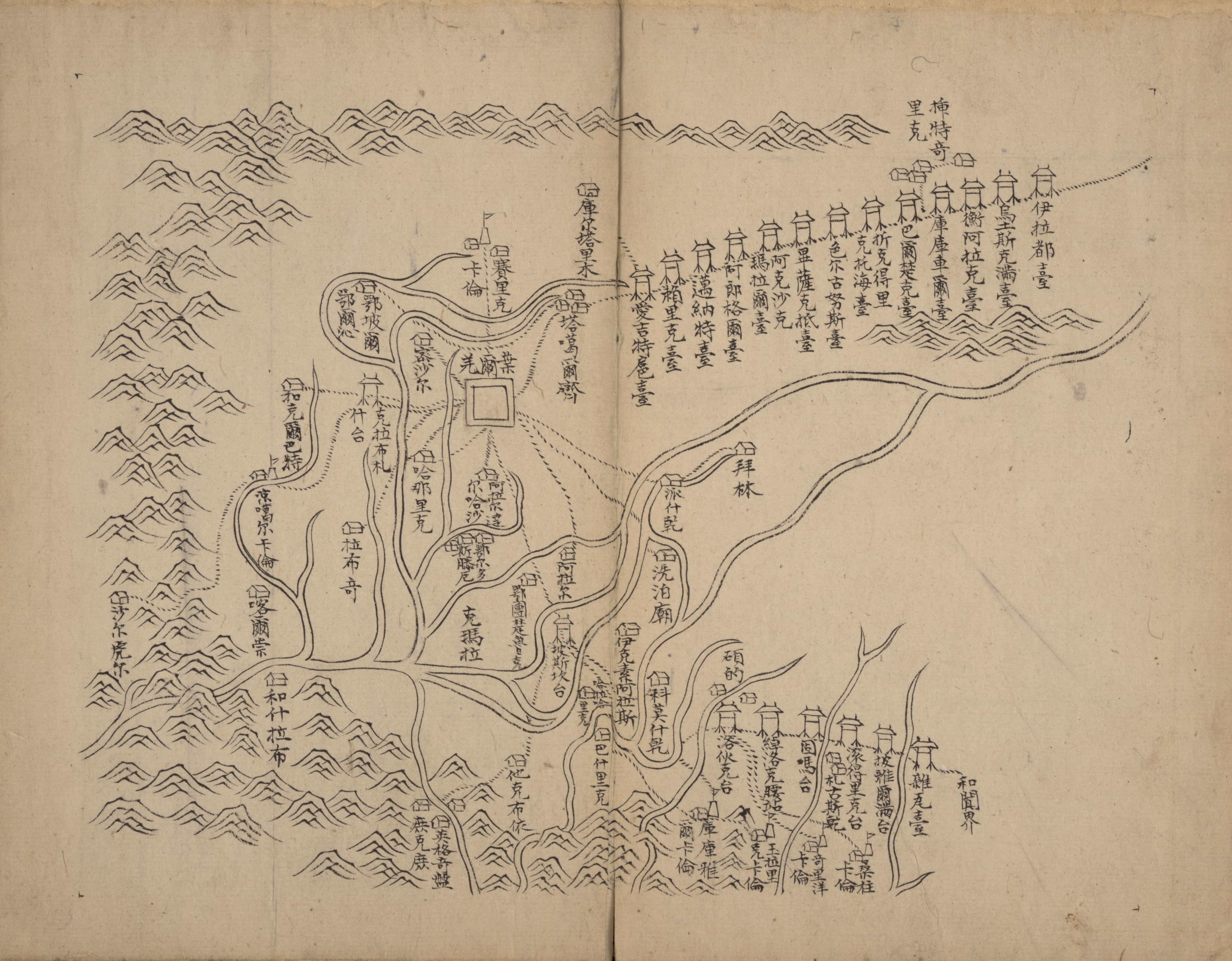 Xinjiang Quan Tu (Atlas of Xinjiang). Chart 15 - Yarkand. Shows the topography, cities, villages and roads with the military posts in the Xinjiang. Also shows the administrative system and local divisions of Xinjiang before the 24th year of Emperor Qianlong (1759). Not drawn to scale. Relief shown pictorially.